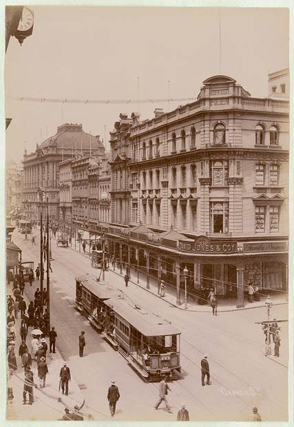 Format: Albumen photoprint Find out more about this photograph: .au/item/itemDetailPaged.aspx?itemID=413647 Search for more great images in the State Library's collections: .au/search/SimpleSearch.aspx From the collection of the State Library of New South Wales